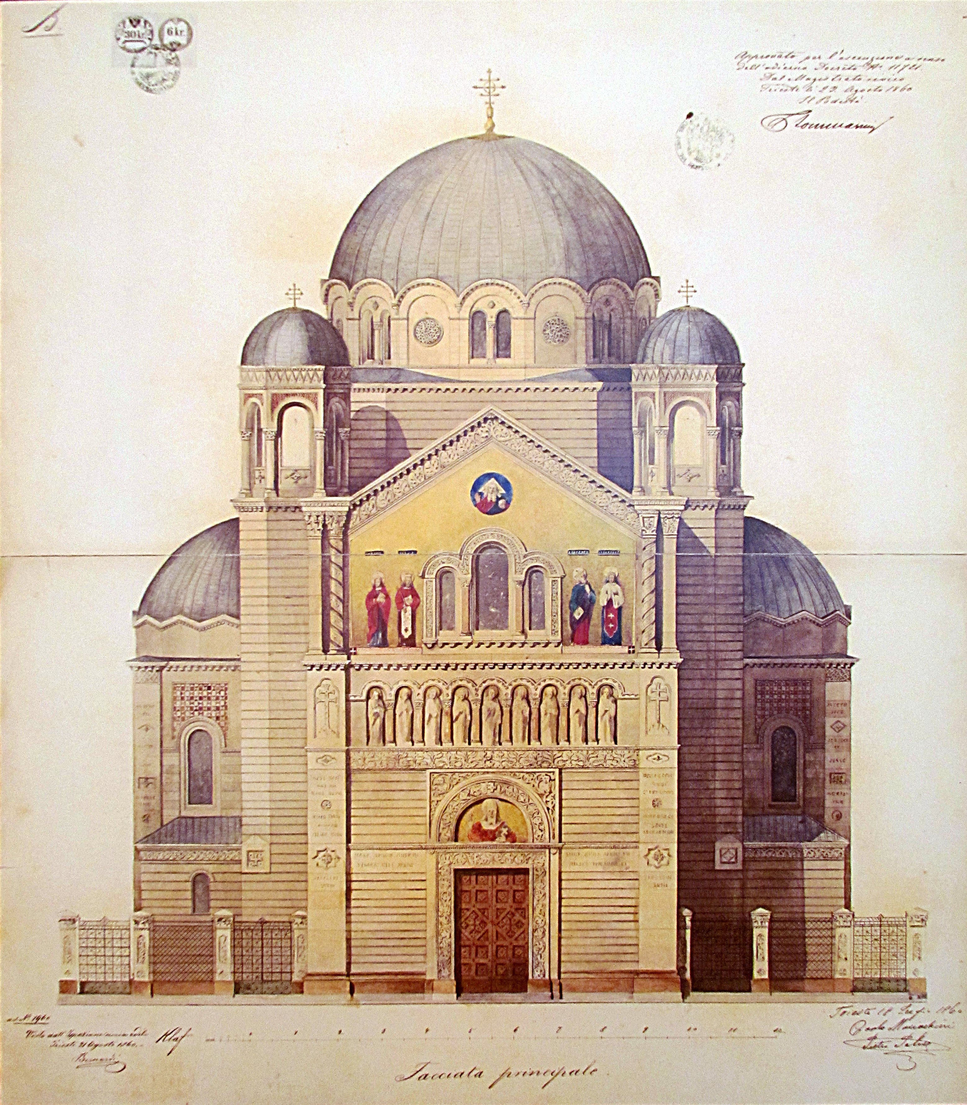 Carlo Maciachini, main facade of Saint Spyridon Serbian orthodox Church, Trieste